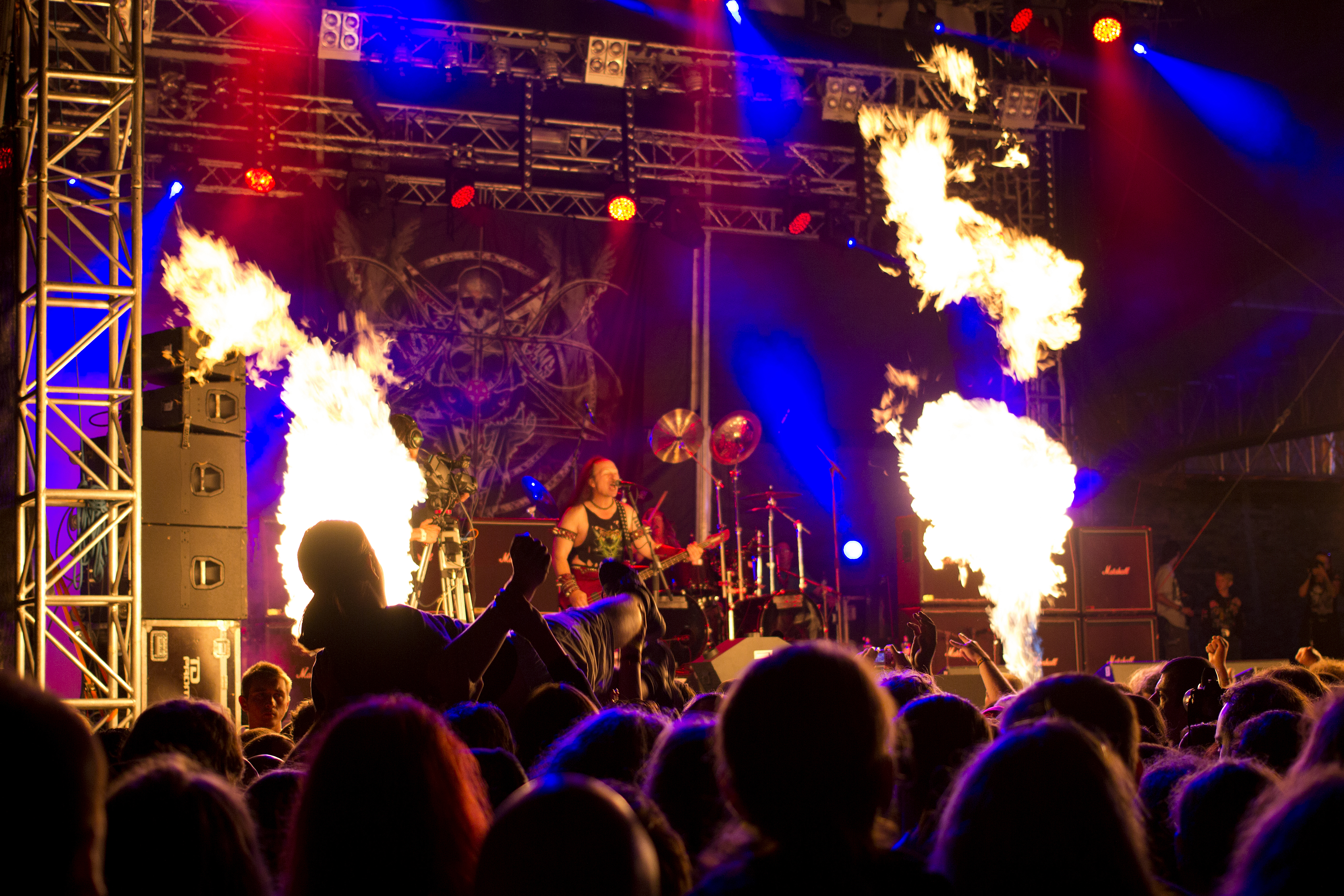 British band Venom performing live at Brutal Assault 2014.